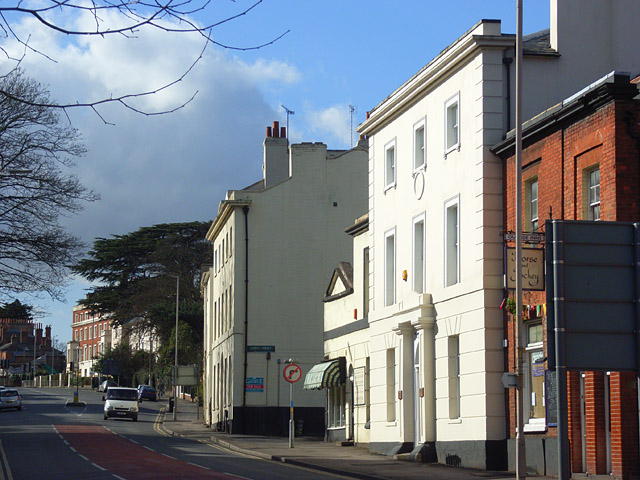 The north side of Castle Hill in West Reading, Reading, England. On the right we have the red bricks of the Horse and Jockey pub, followed by Culham House and the junction with Carey Street. The road is seen here climbing up to the junction with Tilehurst Road. The rather grand houses mostly date from the earlier part of the 19th century. Most, if not all, of the buildings are listed. For more information see the Wikipedia article West Reading.